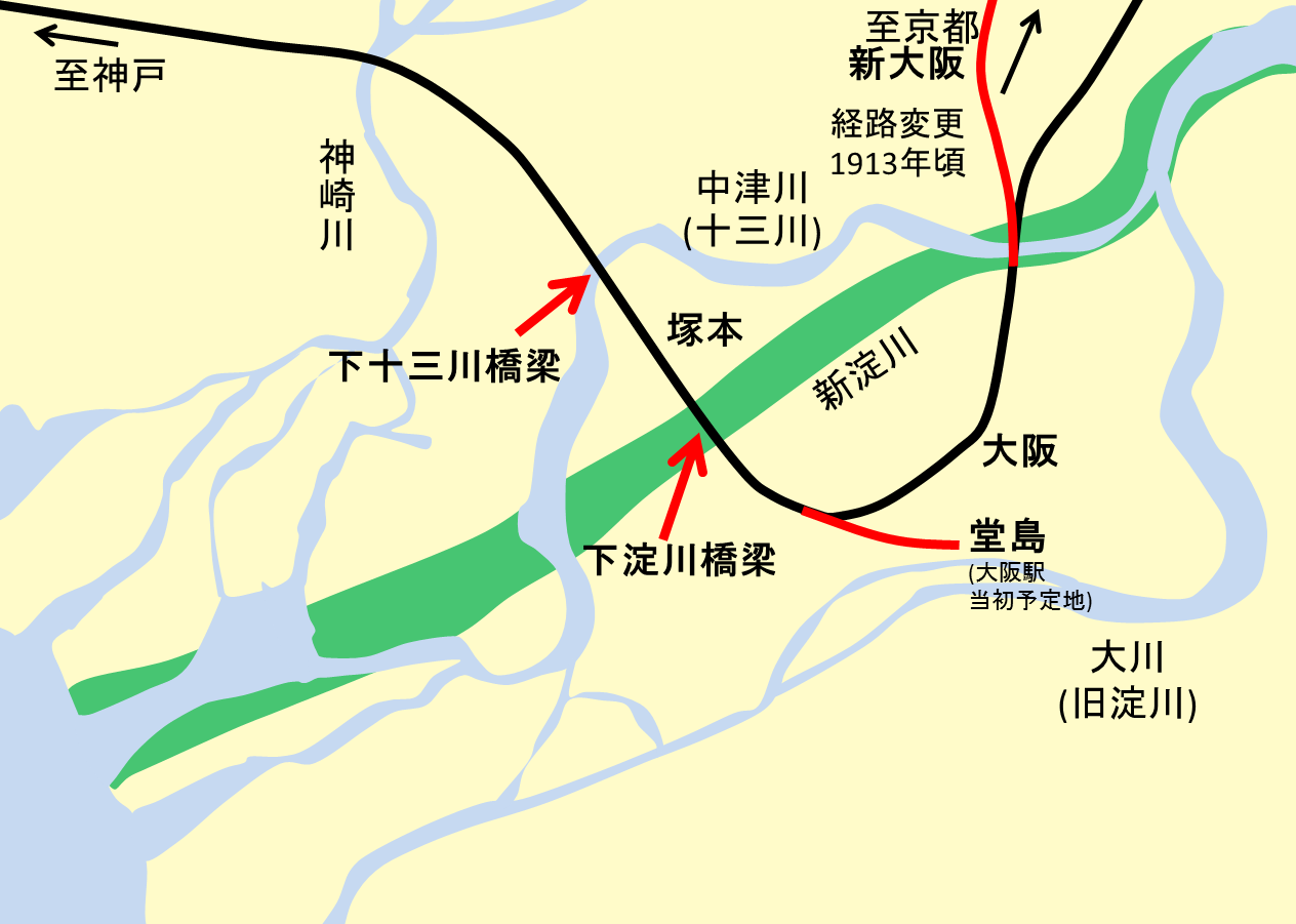 Railway route map around Osaka and position of Shimo-Yodogawa bridge including Yodo river construction work